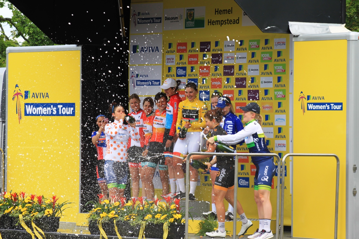 The winners of The 2015 Women's Tour on the podium at Hemel Hempstead. (Left) Boels Dolman Team (team classification); (centre) Christine Majerus (3rd individual), Lisa Brennauer (1st) and Jolien D'Hoore (2nd); (three on right) Hannah Barnes (best british rider and best under 23), Elisa Longho-Bordini (most combatative rider) and Gracie Evlin (most comabative in final stage); (front left) Melissa Hoskins (Queen of the Monutains).